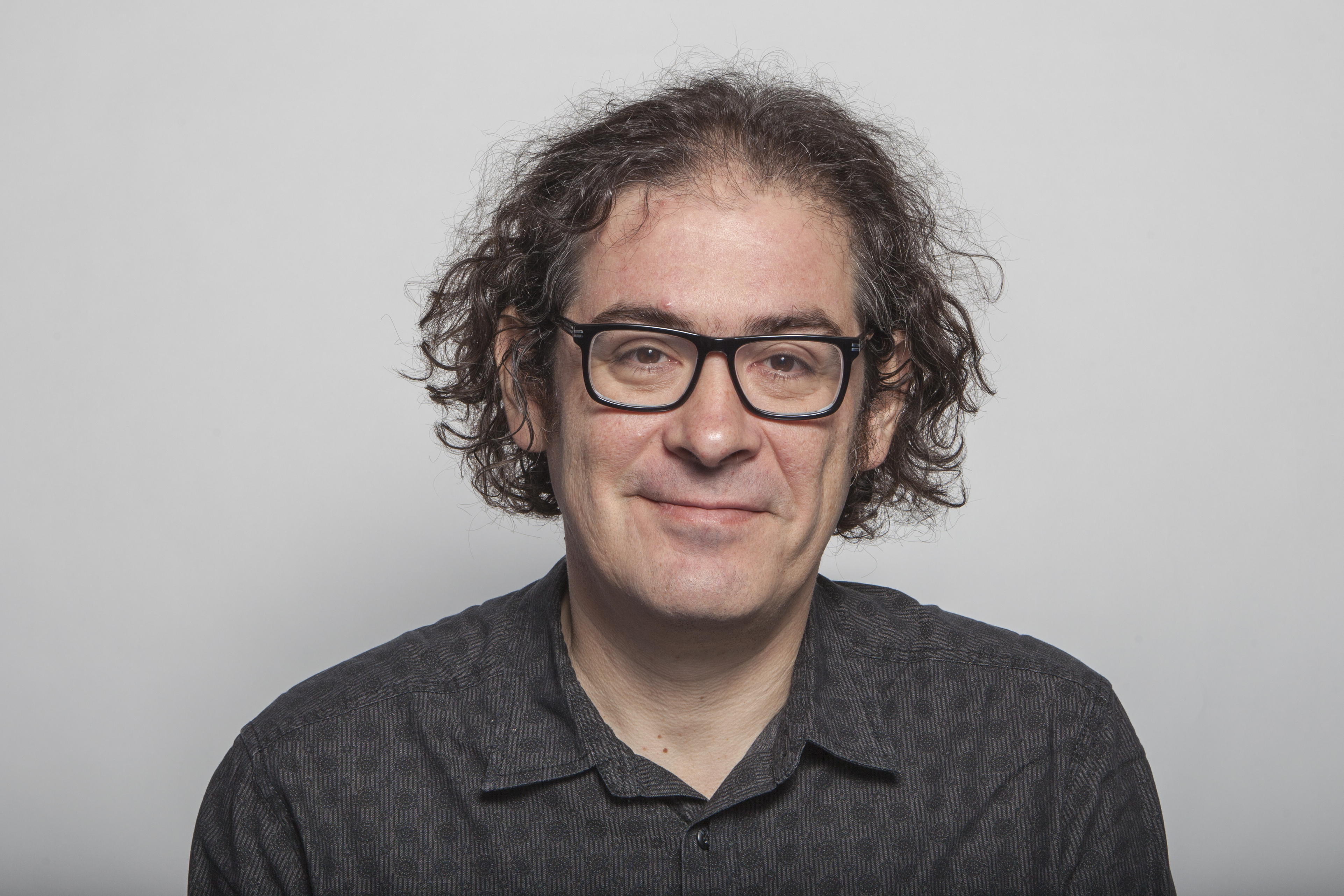 Alexander Dulerayn new foto